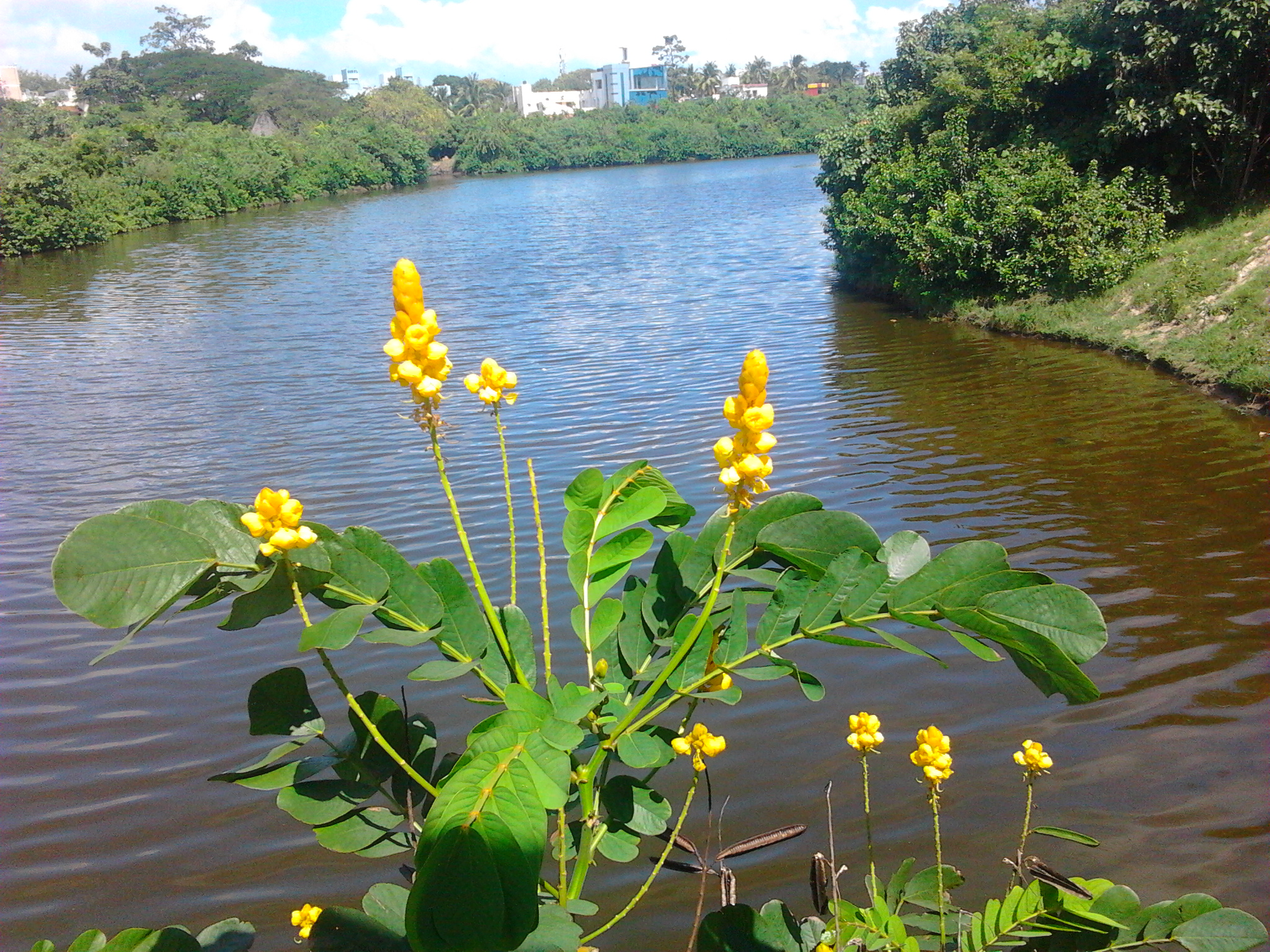 Photoed using Samsung Wave 525.